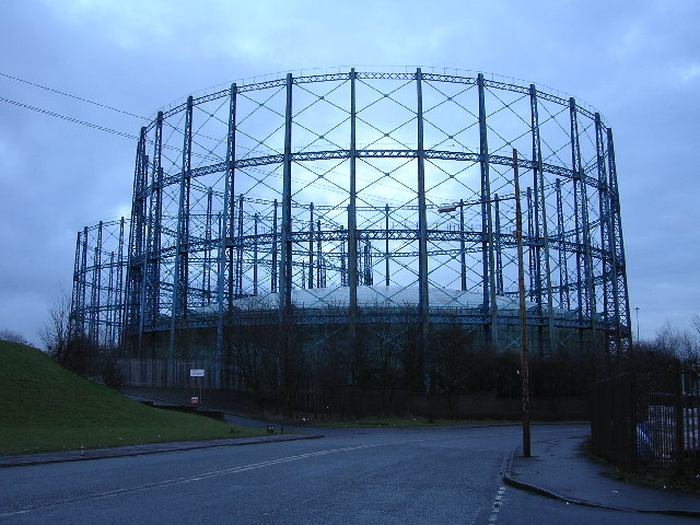 Provan Gasworks, Glasgow.